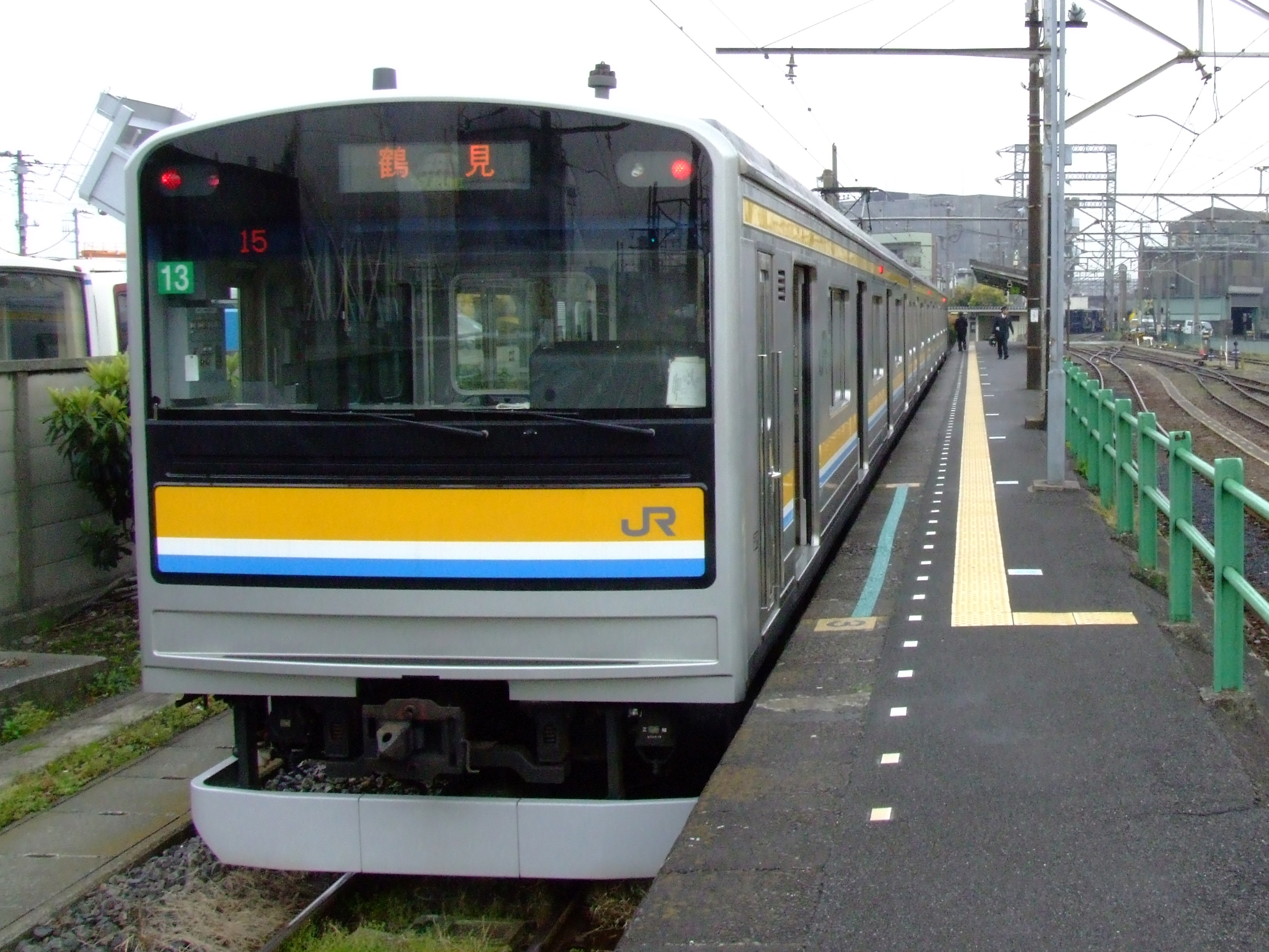 Japanese National Railway type 205 for JR East Tsurumi Line